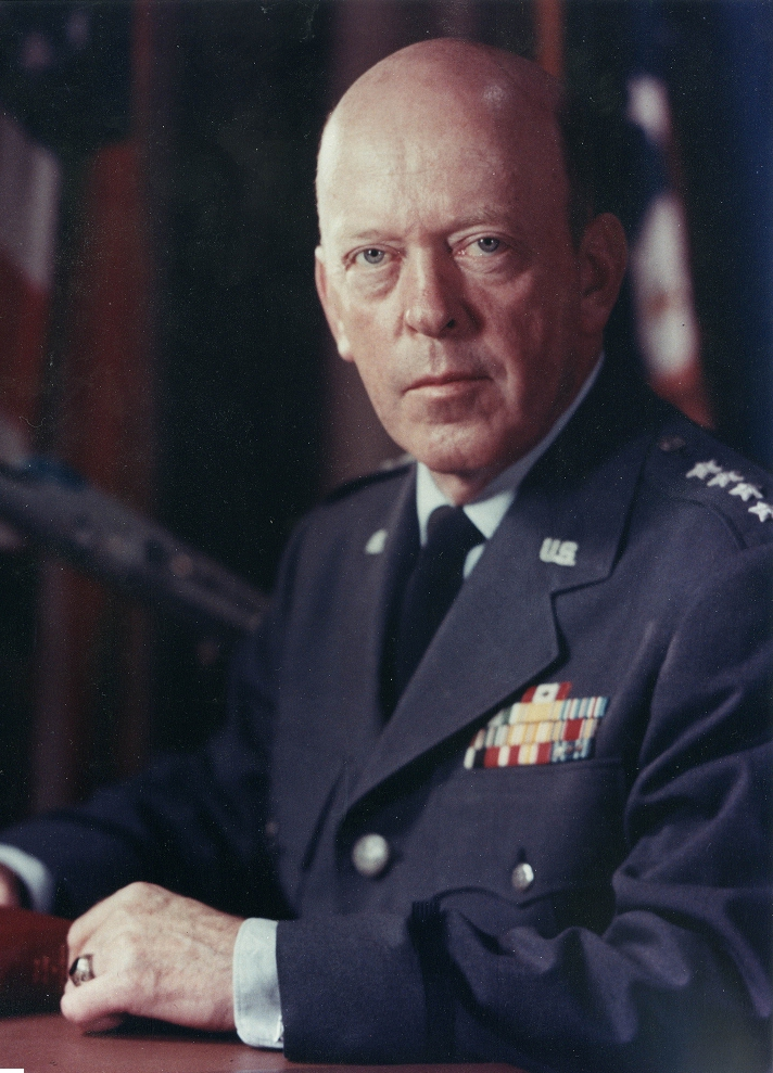 Photo of US General William F. McKee